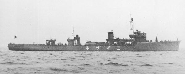 Japanese minelayer "Niizaki" off Tamano, completed on Aug. 31, 1942 at Mitsui Tamano shipyard.